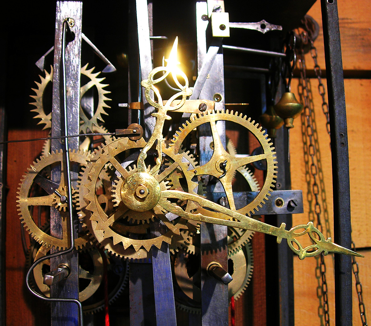 Clock movement